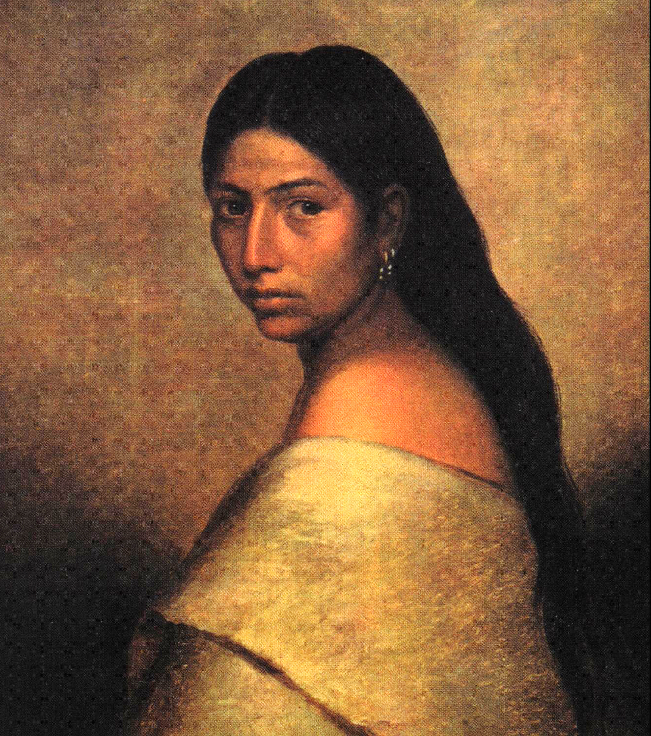 Portrait of a young Choctaw woman her body turned to the left, her head turned back to the front, and her gaze directed toward the viewer. She wears a pair of earrings and an off-the-shoulder garment made of animal skin. Her long dark hair is parted in the middle and falls down over her back. Painted in Mobile, Alabama.